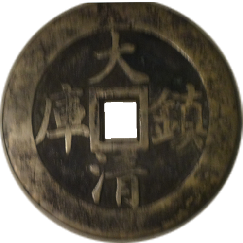 Vault Protector Coin of the Qing Dynasty, the inscription 大清鎮庫(Da Qing Zhen Ku) translates as "Vault Protector of the Qing Dynasty"